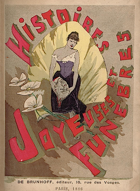 Book cover, Histoires joyeuses et funèbres by Maurice Talmeyr, printed in Paris by Maurice de Brunhoff.